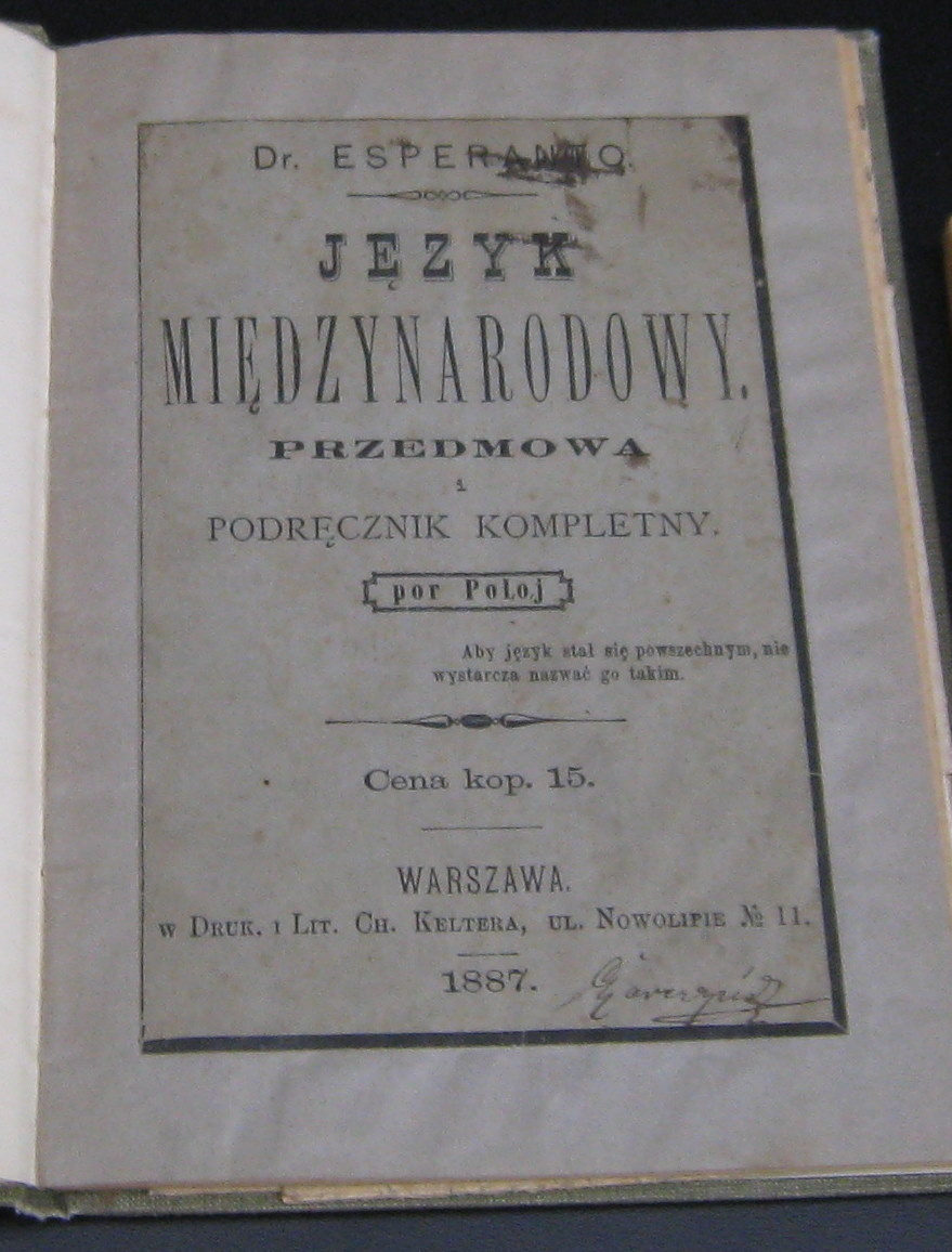 Front page of the “First Book” of Esperanto, Polish version, 1887.